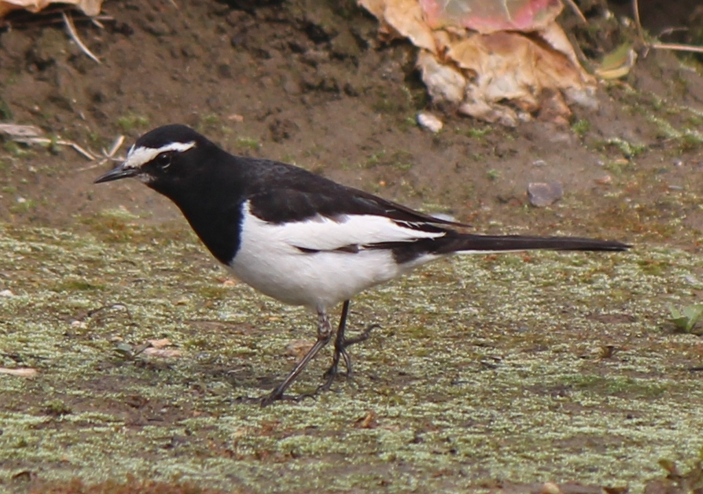 Motacilla grandis (Japanese Wagtail), in Japan